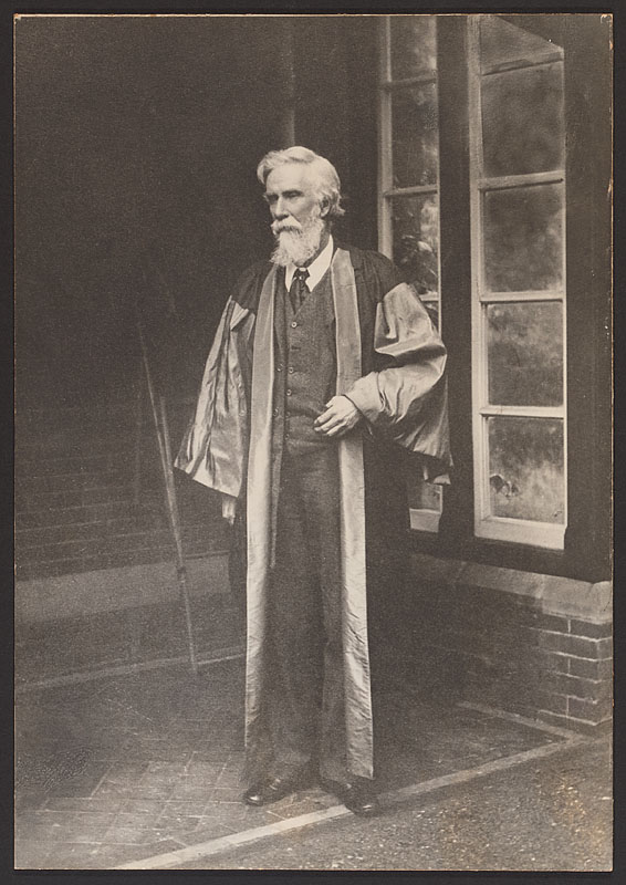 British jurist and constitutional theorist Albert Venn Dicey (4 February 1835 – 7 April 1922) in academic robes.